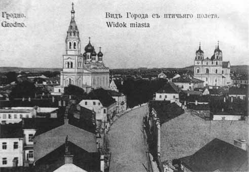 Church of Vitaut the Great, Hrodna; Фара Вітаўта ў Горадні